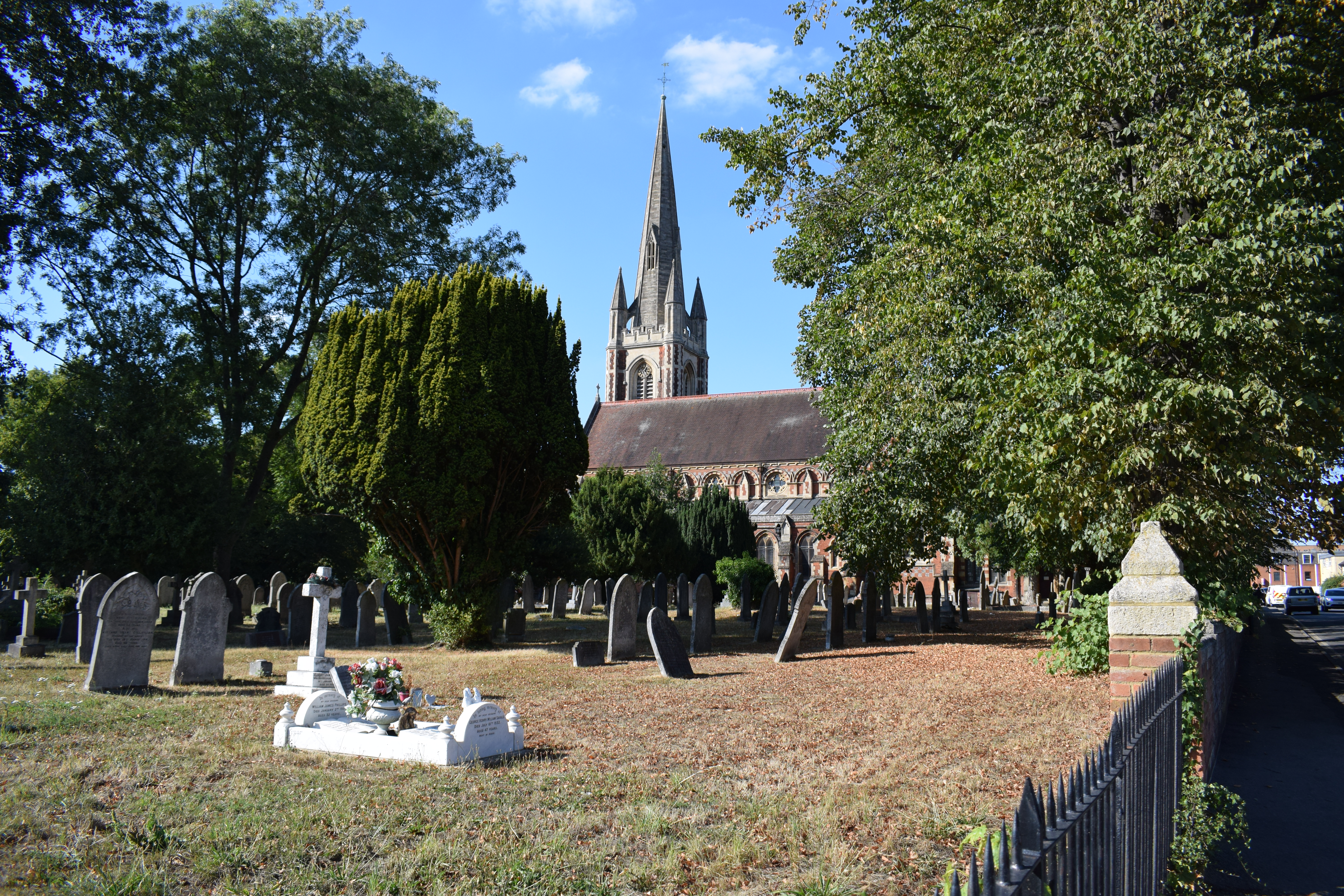 This is St. Mary's Church in Slough.